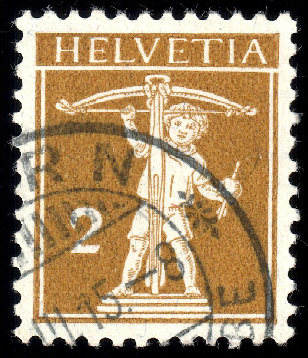 Switzerland 1910 2c type III Zs123III, crossbow string behind shaft, top handle larger and more symmetrical.